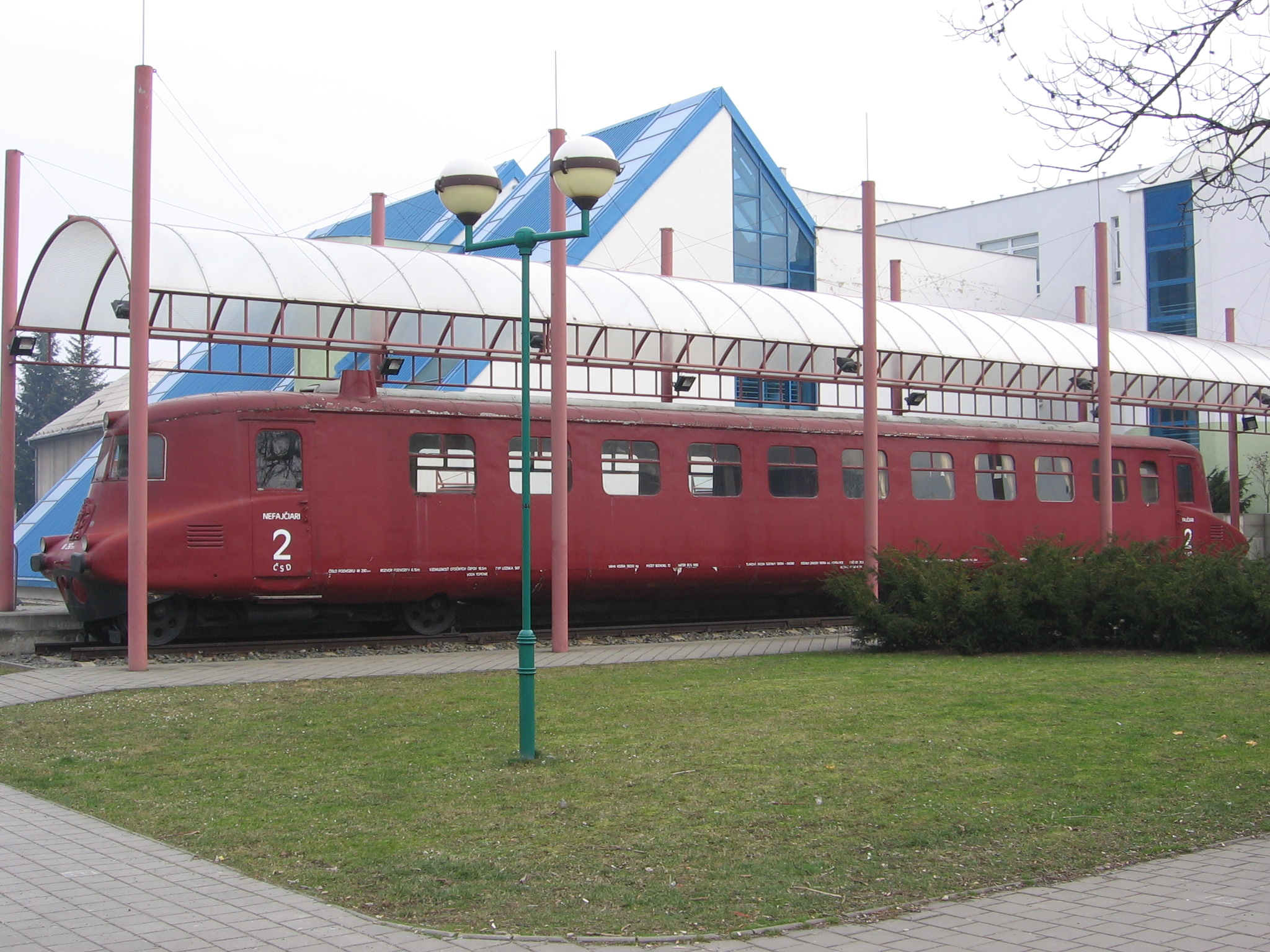 „Slovenská strela“ in front of Technical museum in Kopřivnice (Czech Republic)